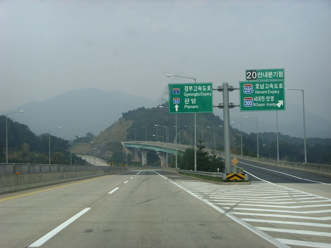 Sannae JCT (Daejeon Nambu Sunhwan Expressway, Jungbu Expressway